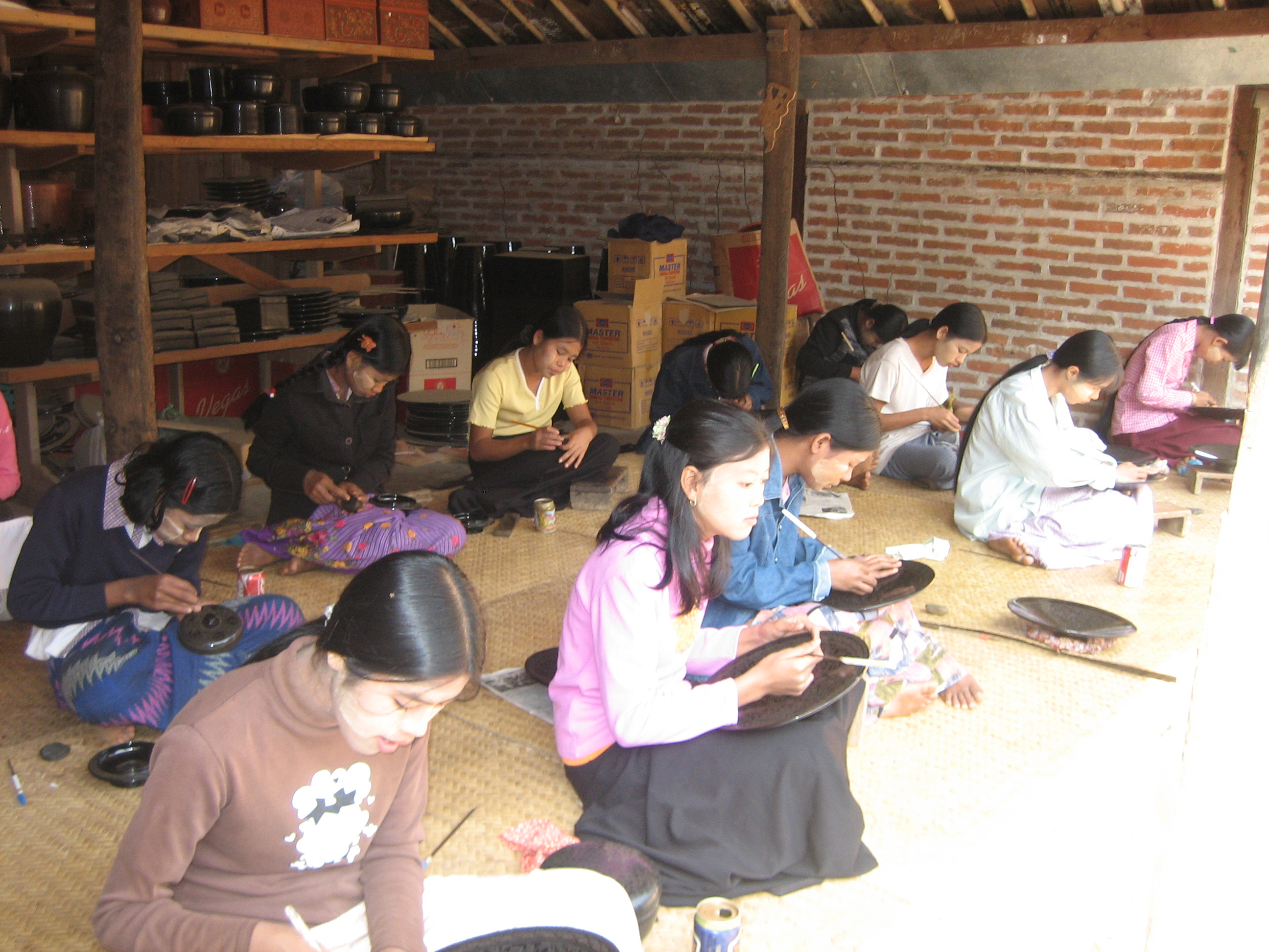 Lacquerware Factory Works in Bagan, Myanmar